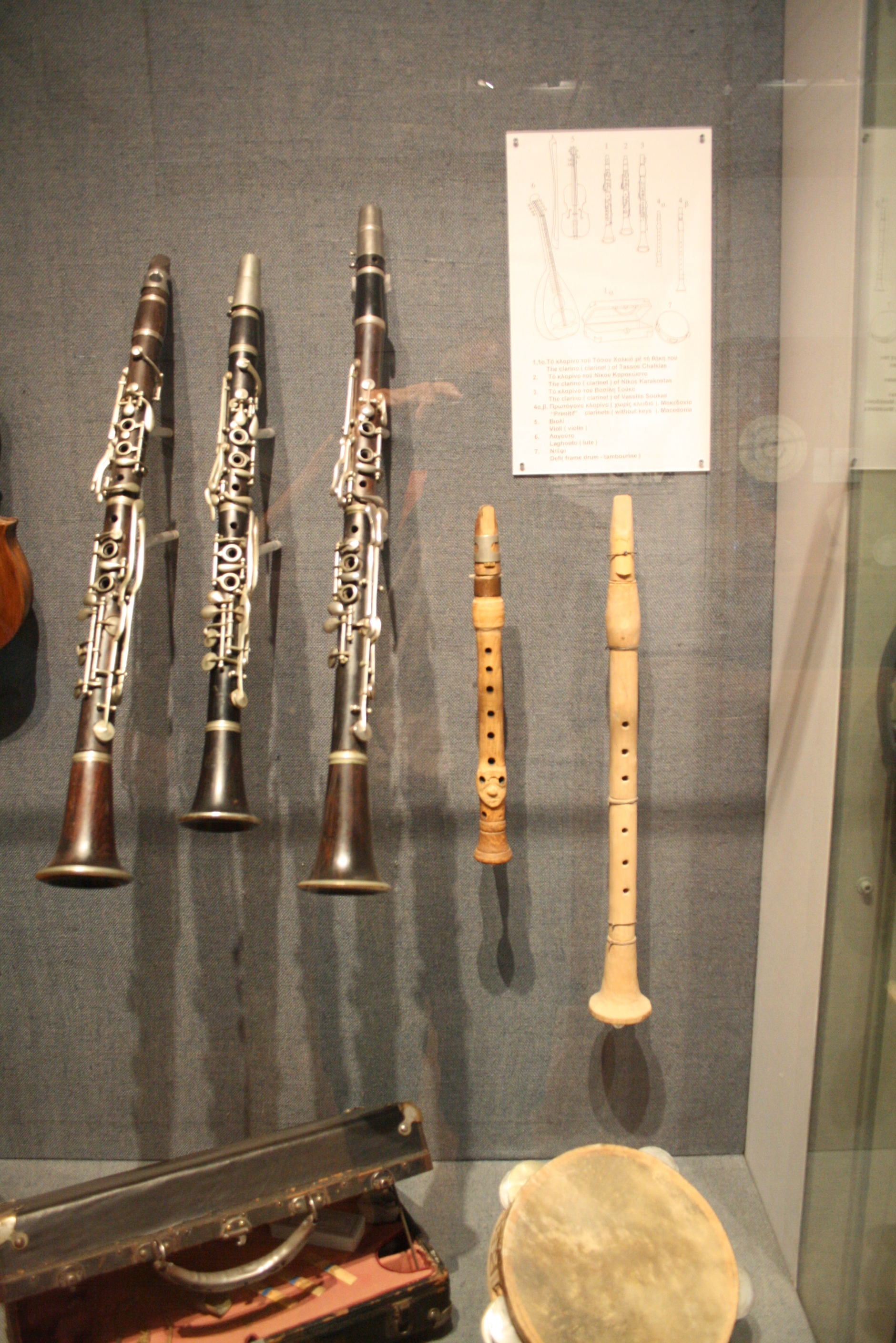 Different types of Greek clarinets in the Museum of Greek Folk Instruments in Athens